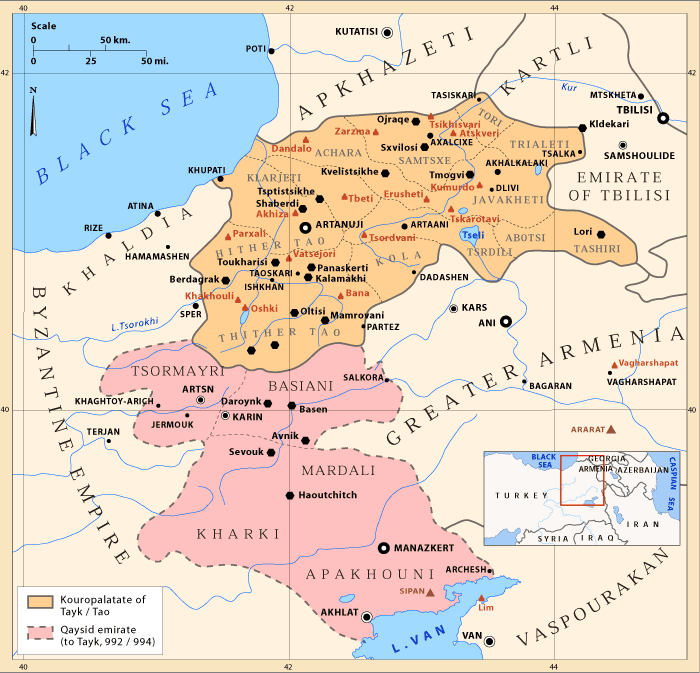 Bagratid Principality of Tayk (Tao)